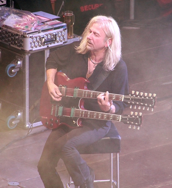 Bernd Römer (born 1952), guitarist of the german rock band "Karat" during a concert in Pirna.